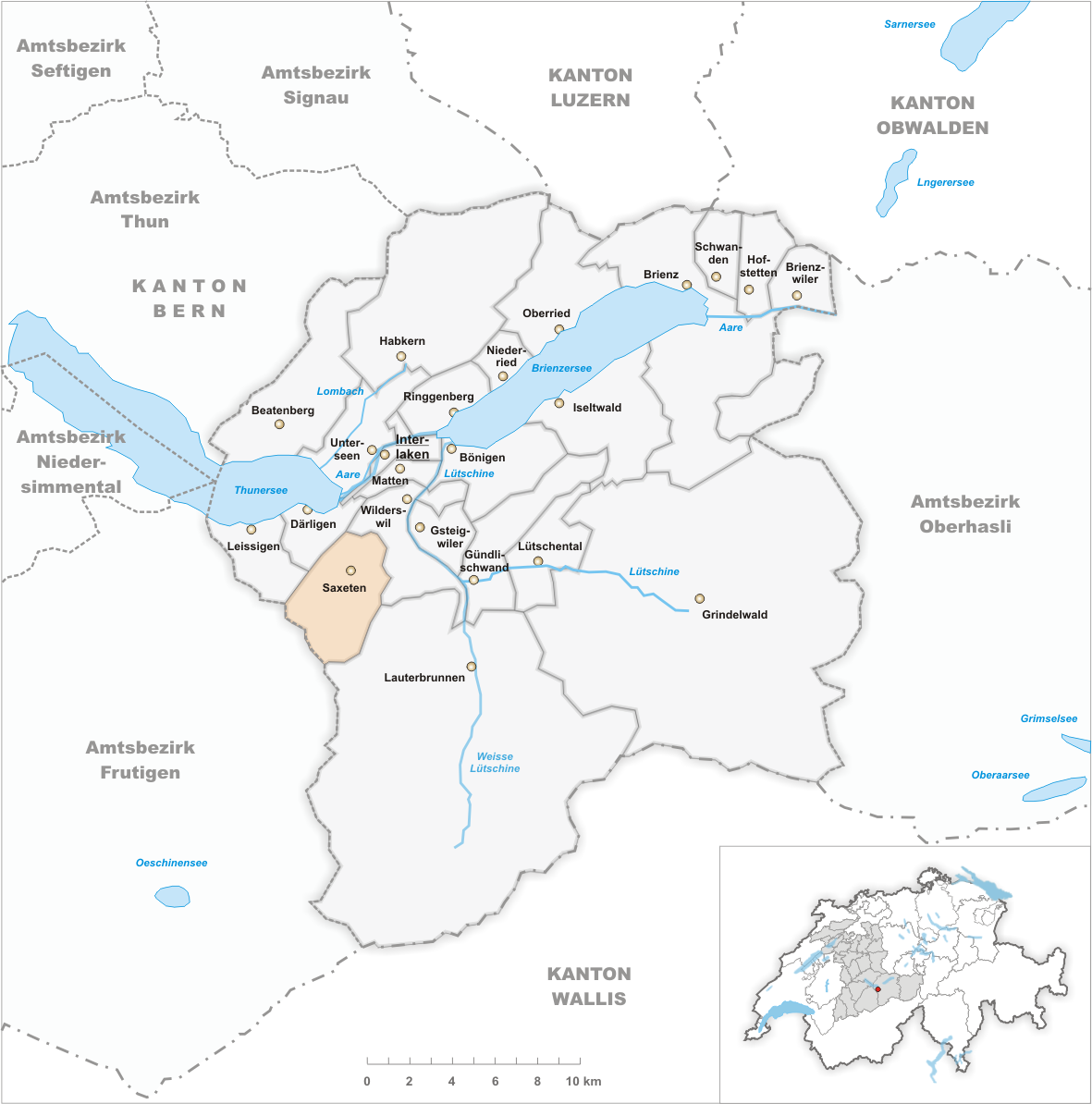 Municipality Saxeten